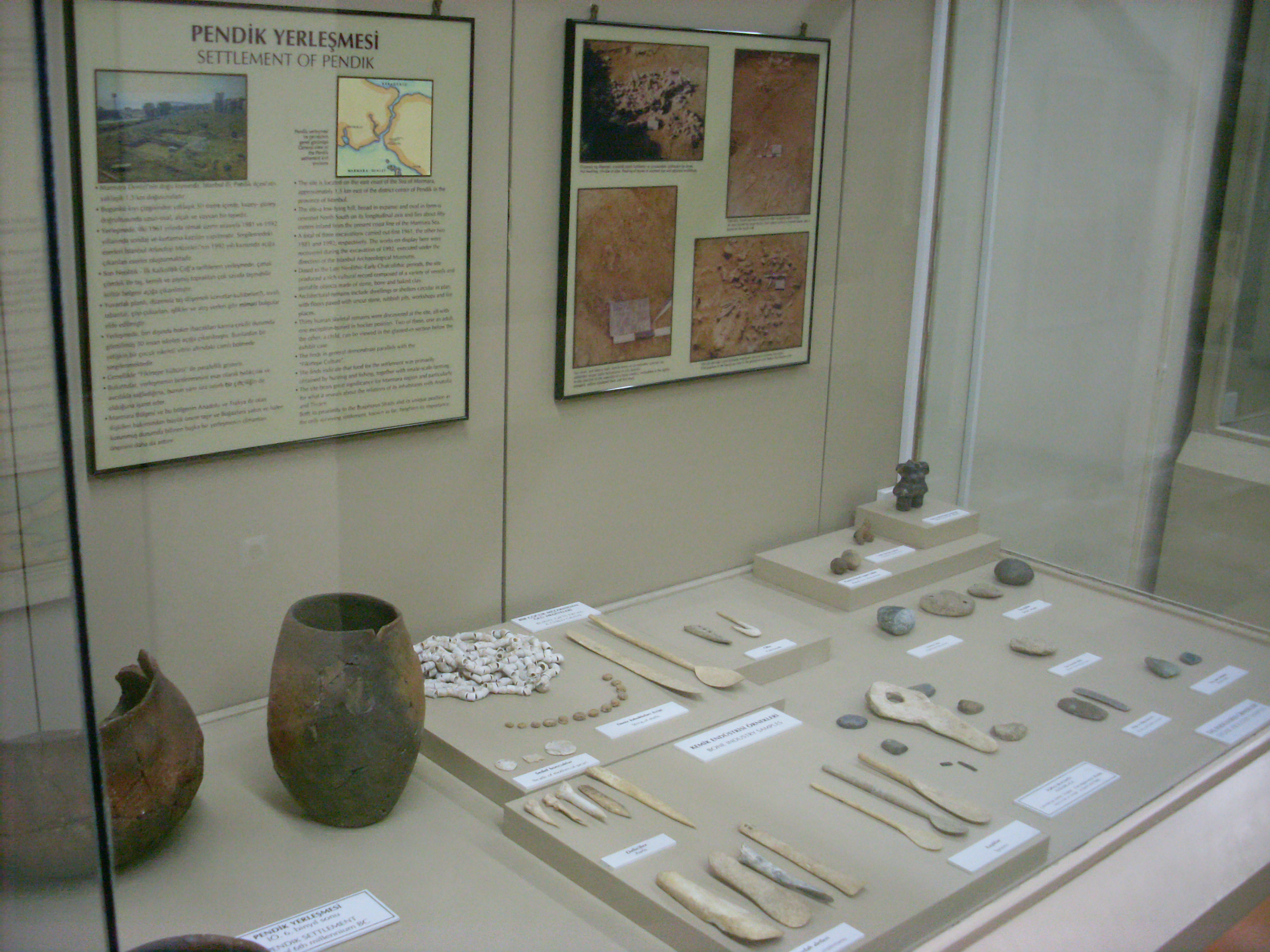 Istanbul Archaeological Museums - History of Pendik